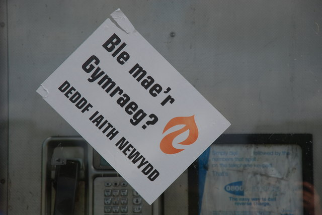 Ble mae'r Gymraeg? - Where's the Welsh? ...asks Cymdeithas yr Iaith Gymraeg - The Welsh Language Society demanding a new language act for Wales. Other side of the phone box! 542026